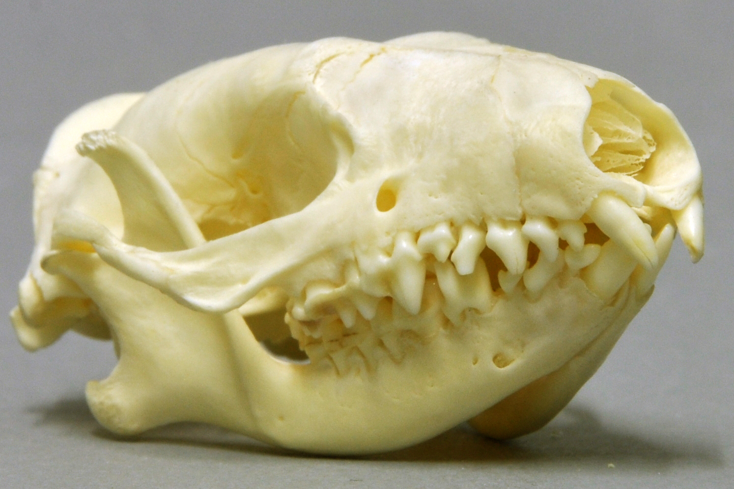 European hedgehog Erinaceus europaeus, skull, Coll. Museum Wiesbaden